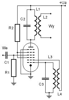 An octode pentagrid converter, as might be found in an All-American 5 tube radio.